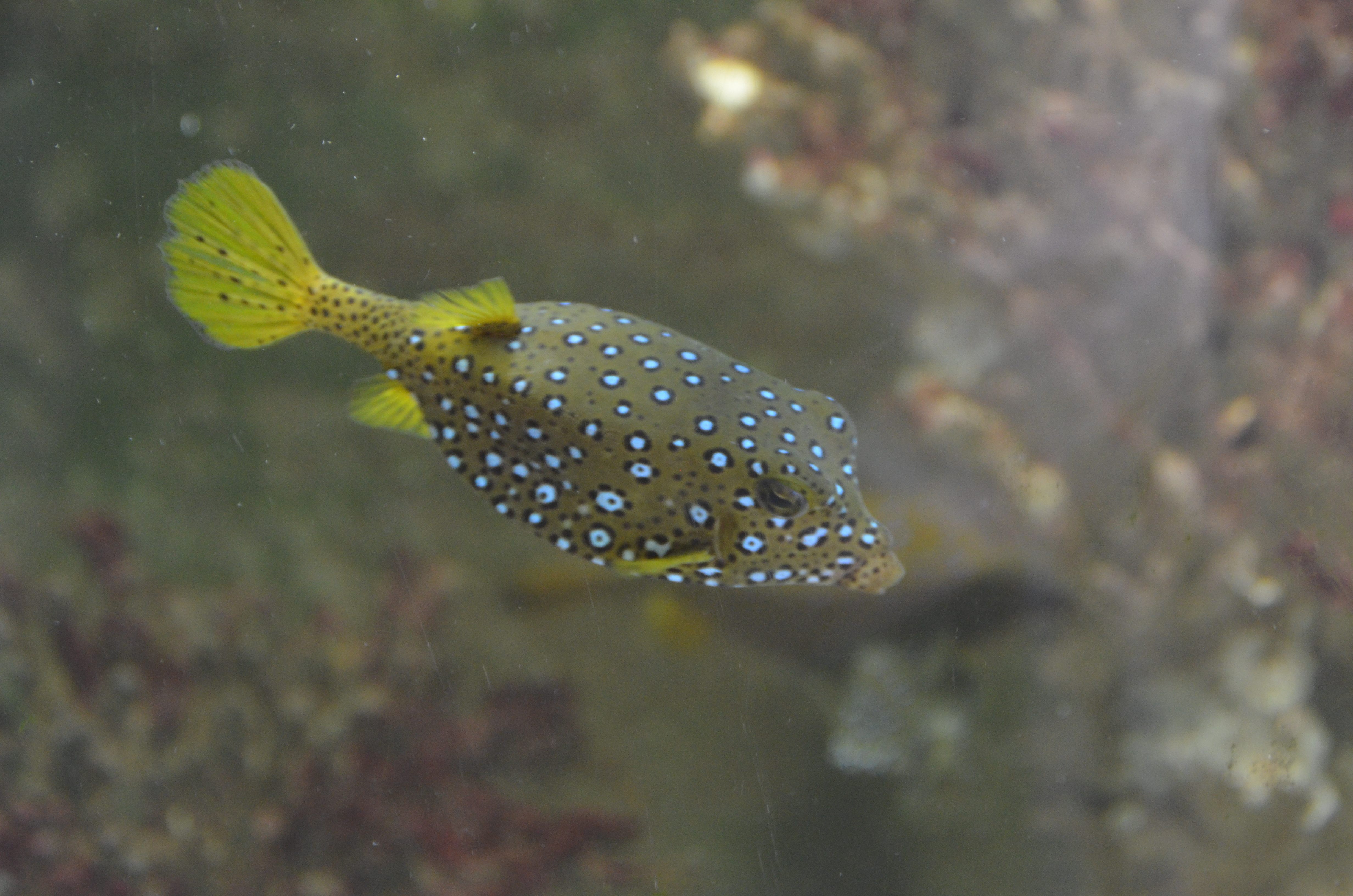 Yellow boxfish